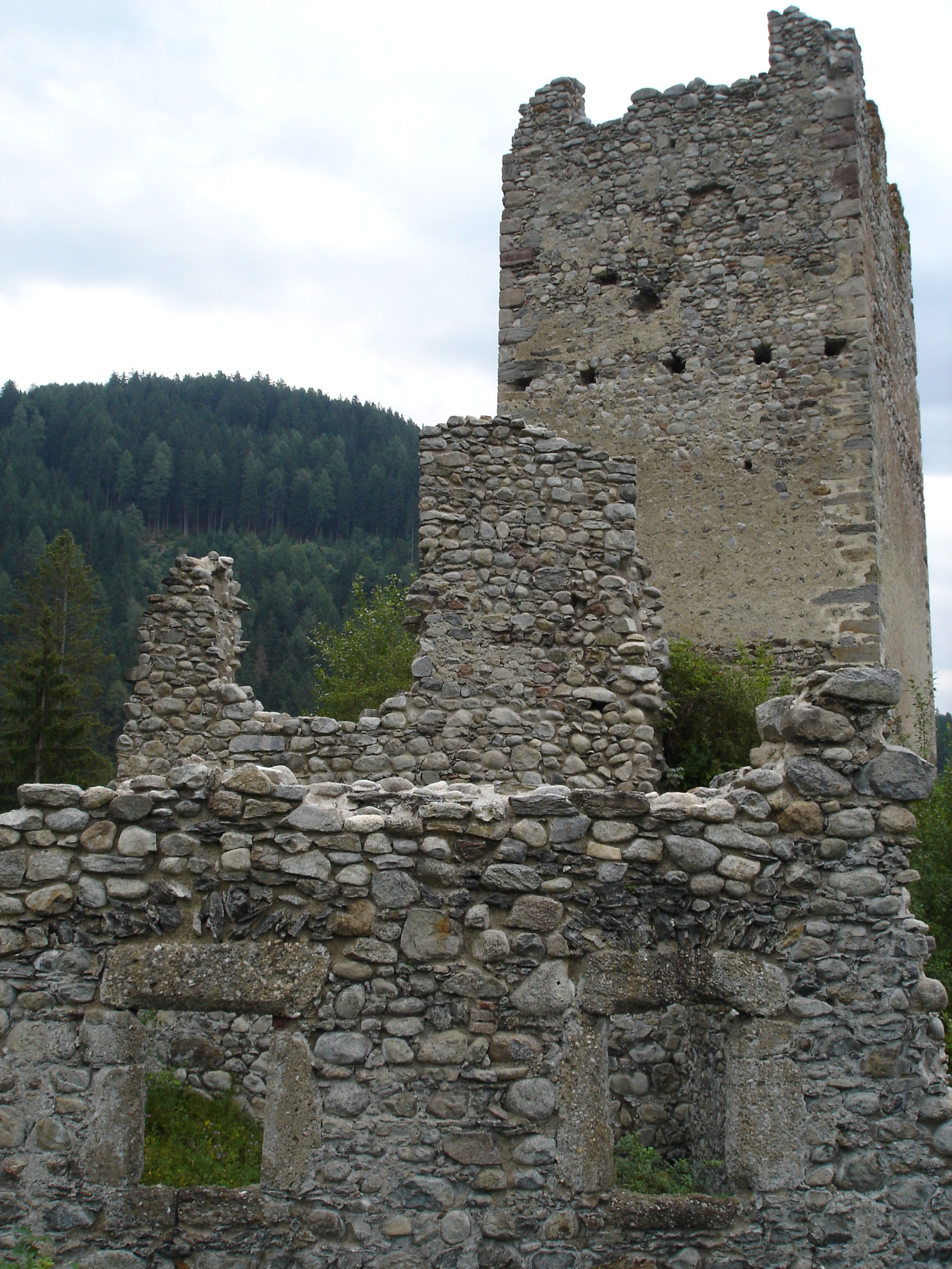 Thurn Castle in Tesido, Italy